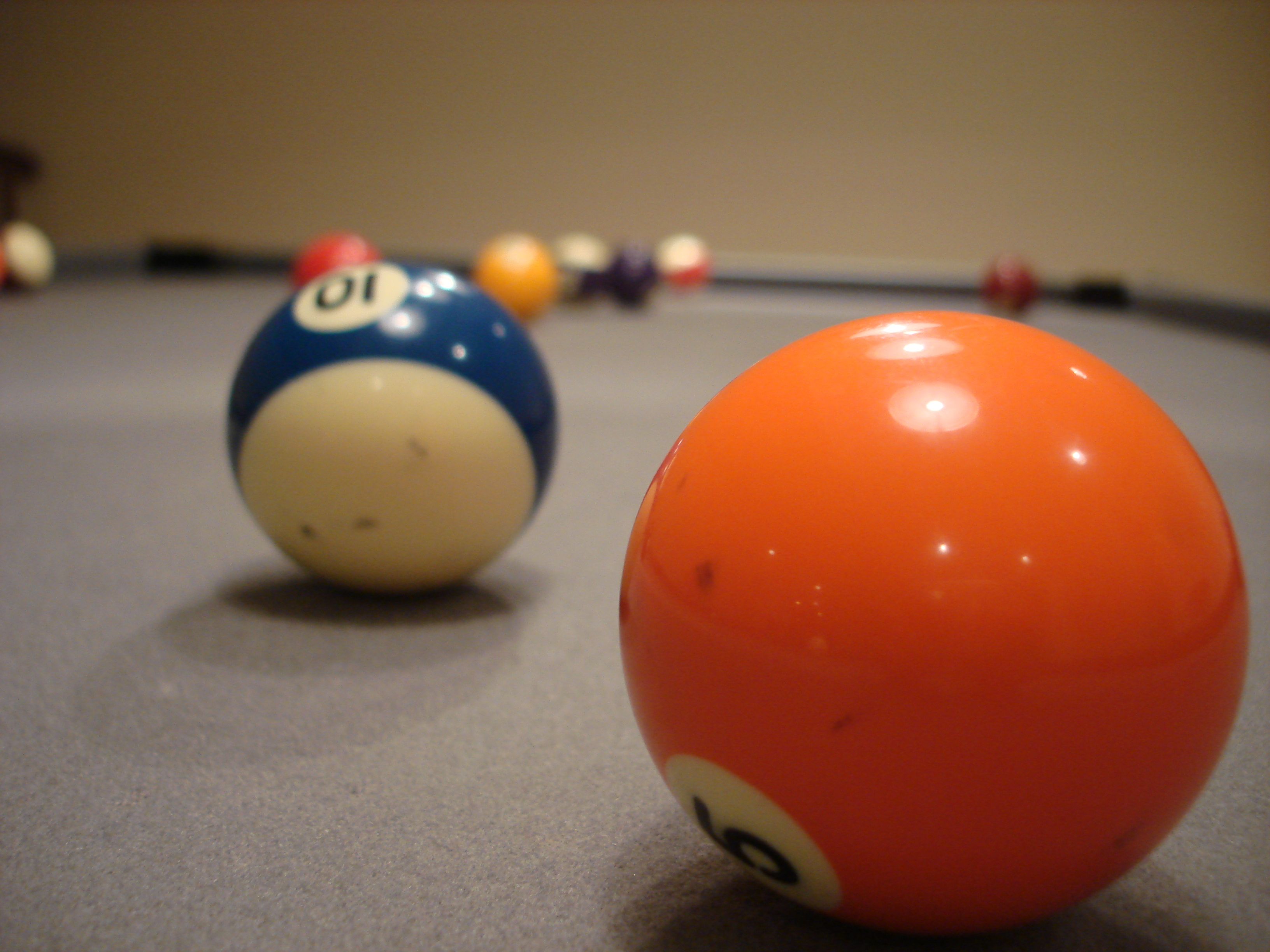 Billiards balls scattered about on a pool table.